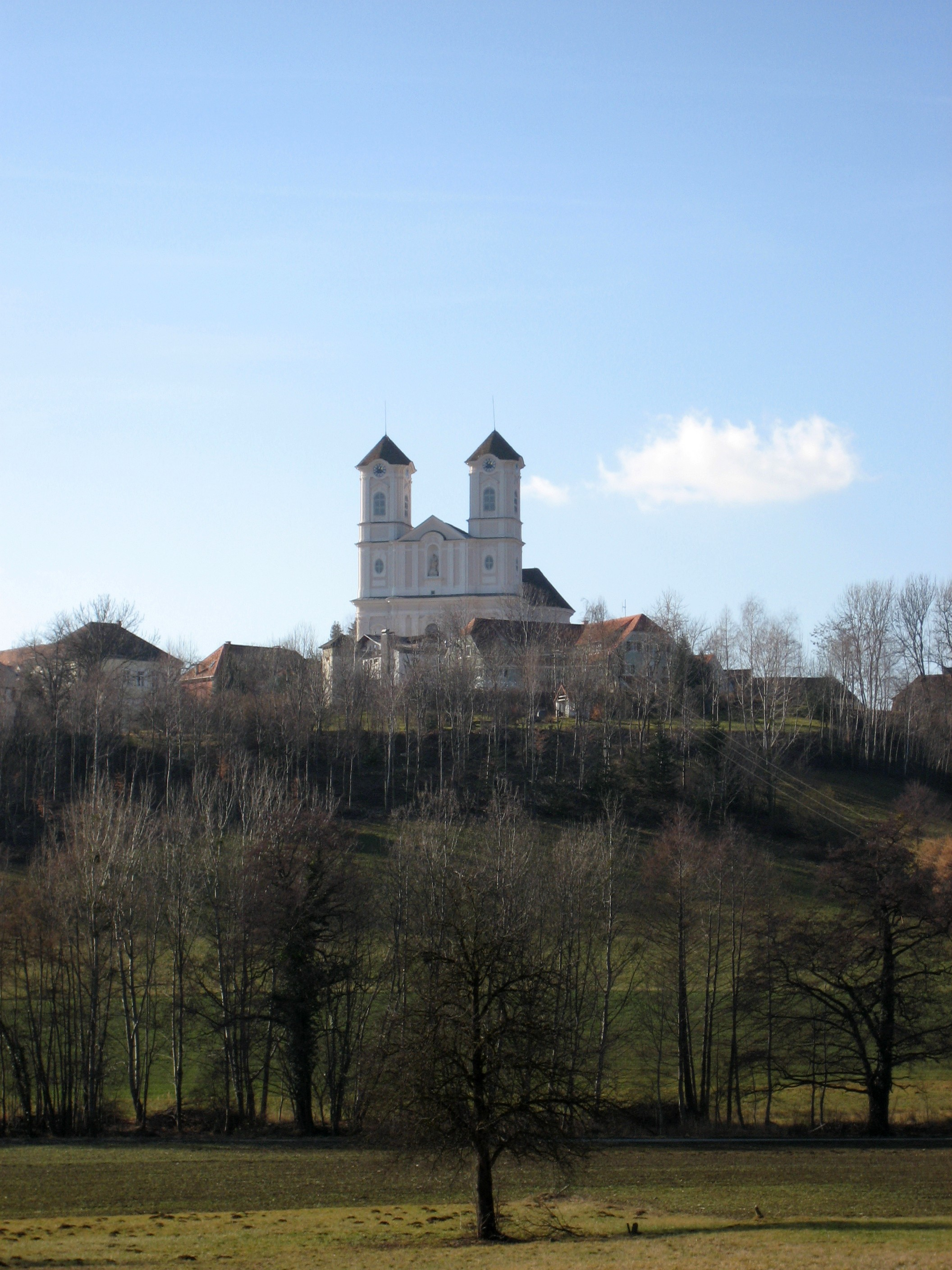 Weizbergkirche in Weiz, Styria, Austria, Europe